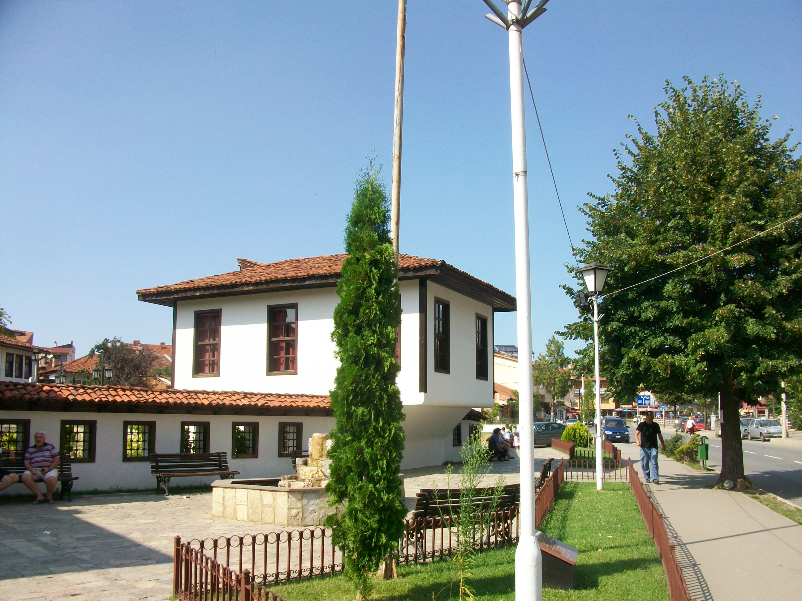 Pictures from Prizren Kosovo